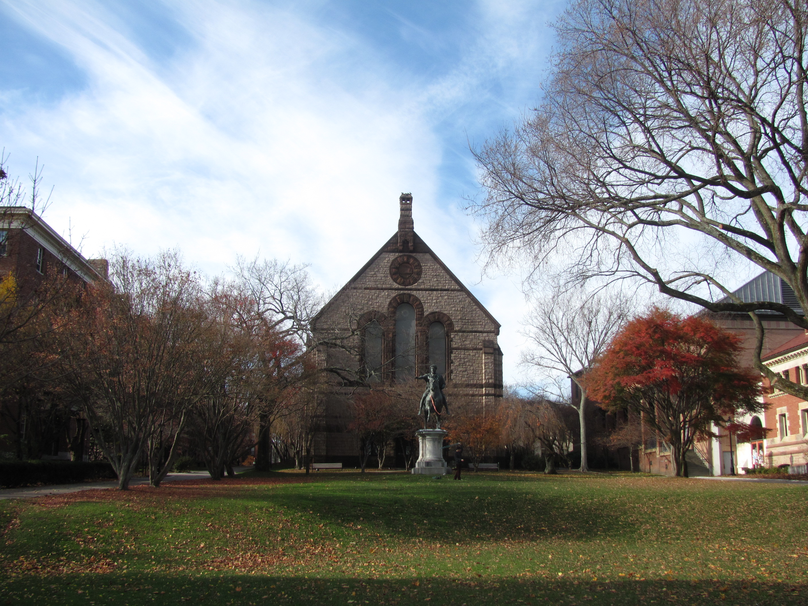 The Ruth J. Simmons Quadrangle, Brown University, Providence Rhode Island